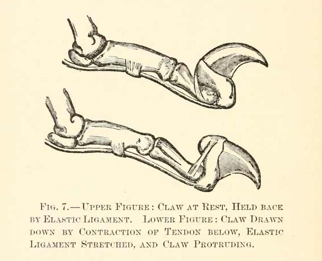 "Upper figure: Claw at rest, held back by elastic ligament Lower figure: Claw drawn down by contraction of tendon below, elastic ligament stretched, and claw protuding"